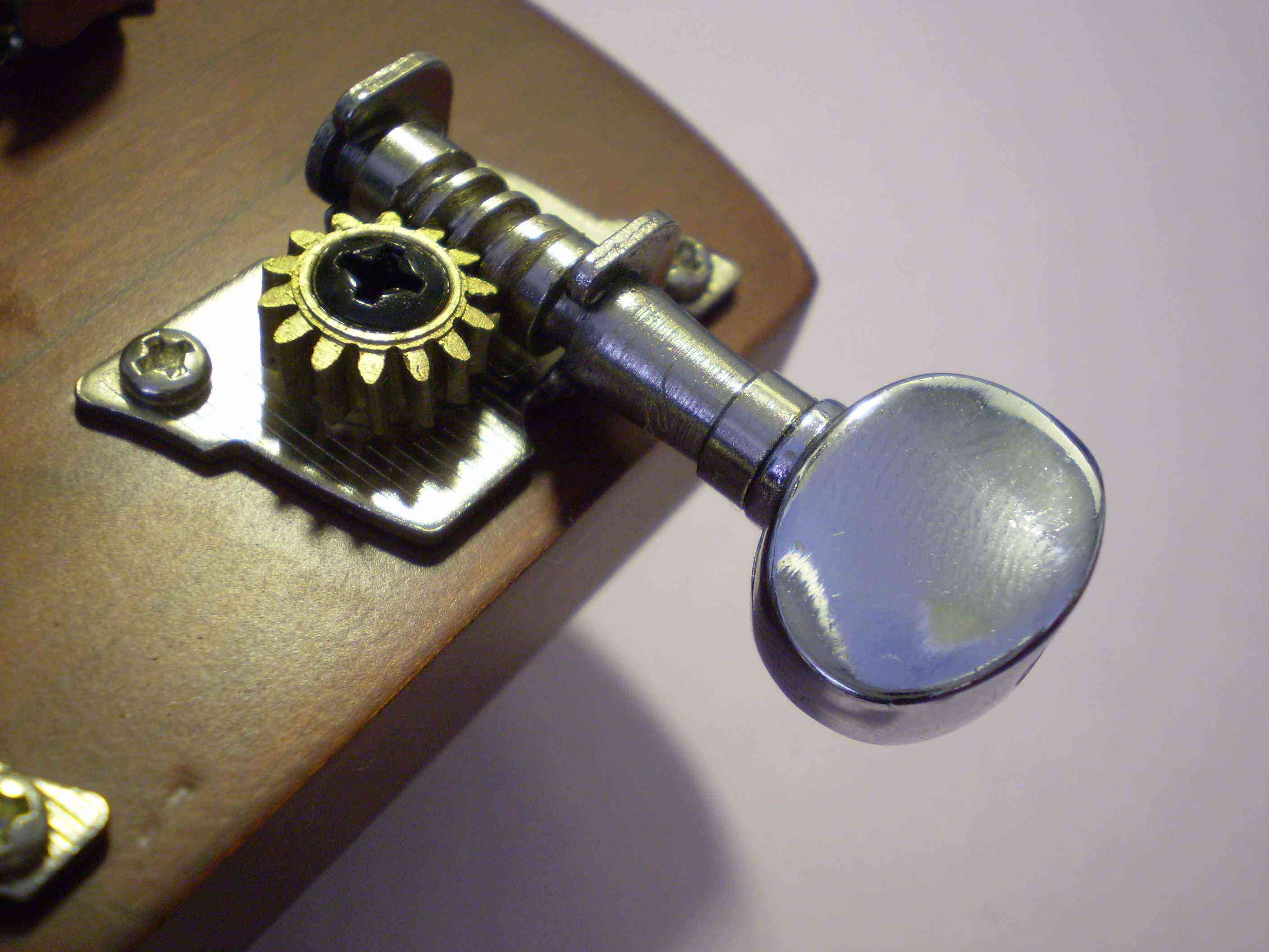 ukelele close up: machine head